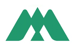 Flag of Myoko Nigata